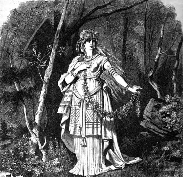 Freya. The goddess Freyja, in the woods.